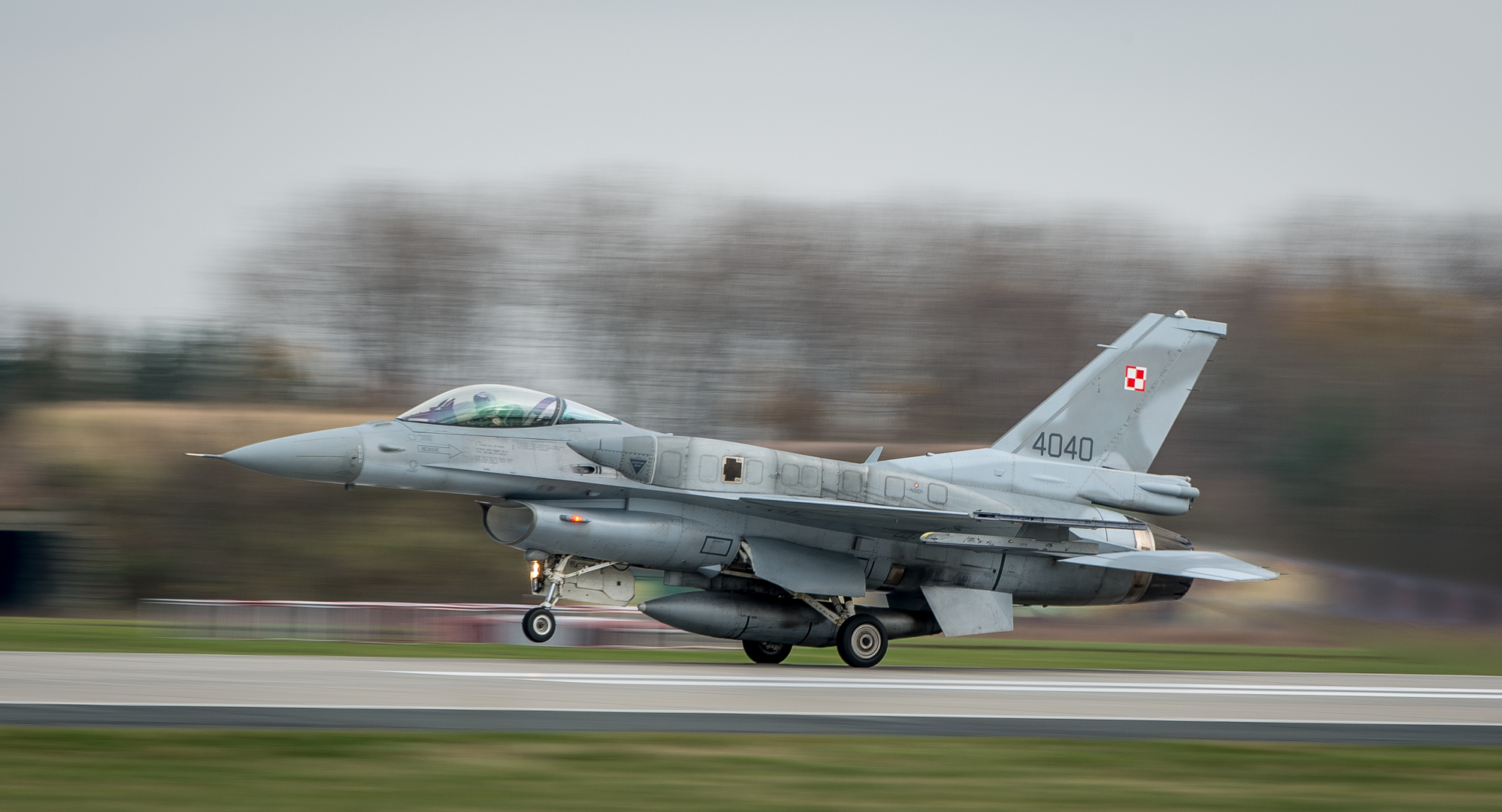 A Polish F-16 takes off during the first day of the air portion of Ex Steadfast Jazz at 31st Air Tactical Base, Poznan, Poland, on Nov. 5, 2013. Exercise Steadfast Jazz 2013 is taking place from 1-9 November in a number of Alliance nations including the Baltic States and Poland. The purpose of the exercise is to train and test the NATO Response Force, a highly ready and technologically advanced multinational force made up of land, air, maritime and special forces components that the Alliance can deploy quickly wherever needed. The Steadfast series of exercises are part of NATO’s efforts to maintain connected and interoperable forces at a high-level of readiness. (NATO photo/SSgt Ian Houlding GBR Army)